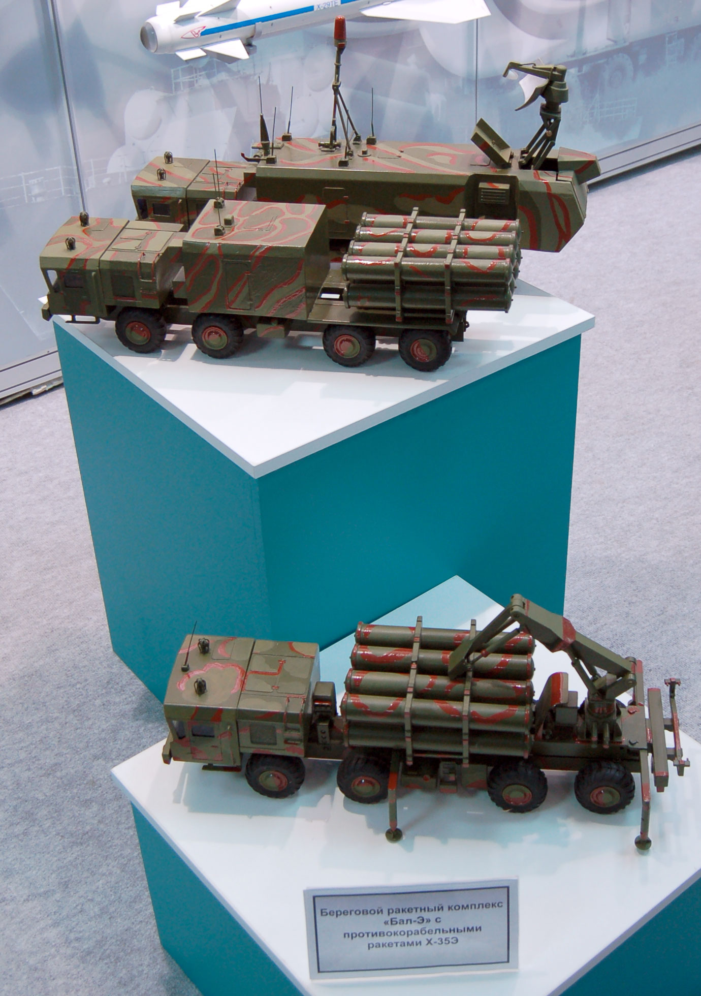 Maquettes of Bal-E missile system. MAKS-2009